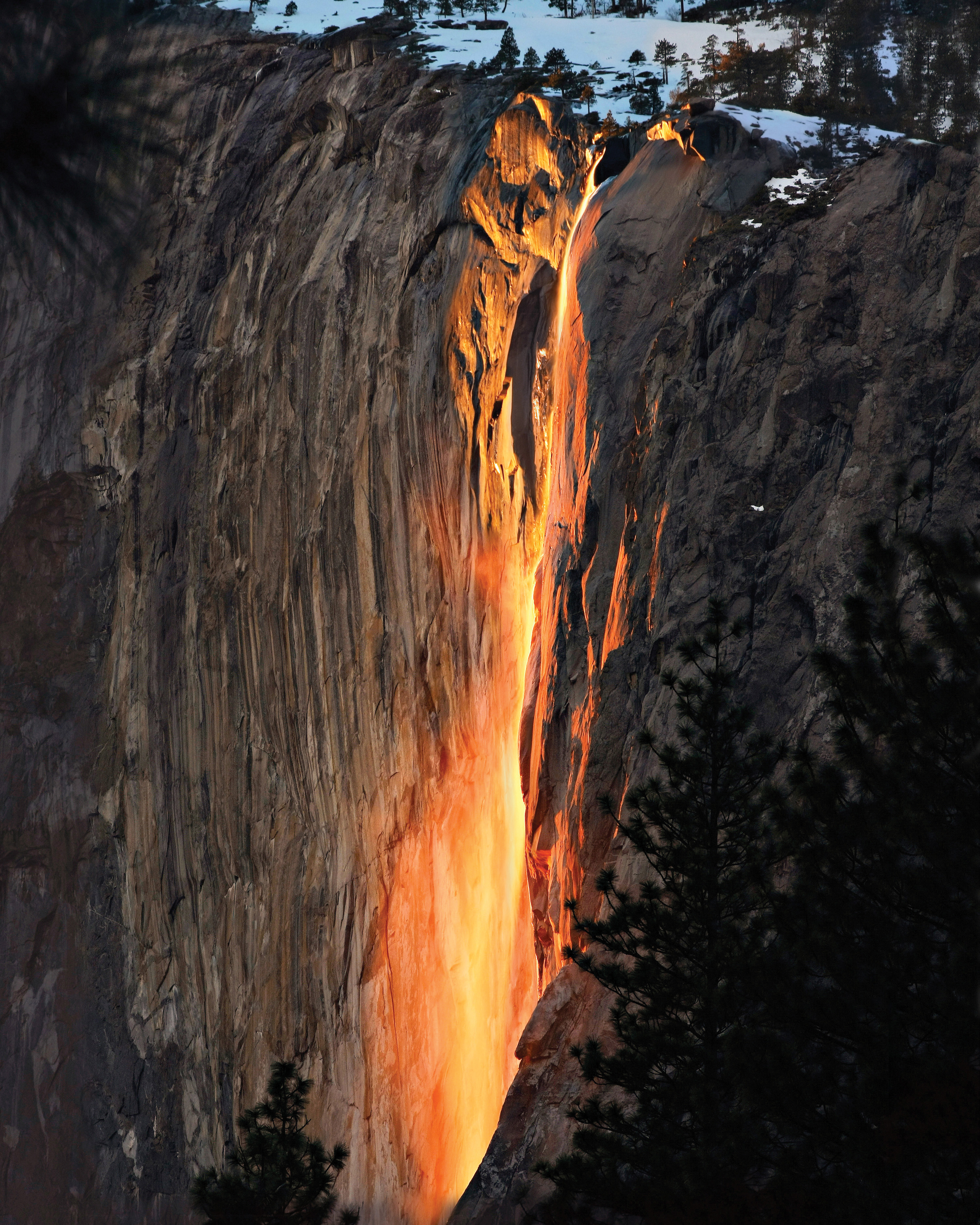 Horsetail Falls